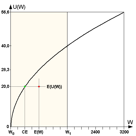 Risk avesion, type 1, case 3